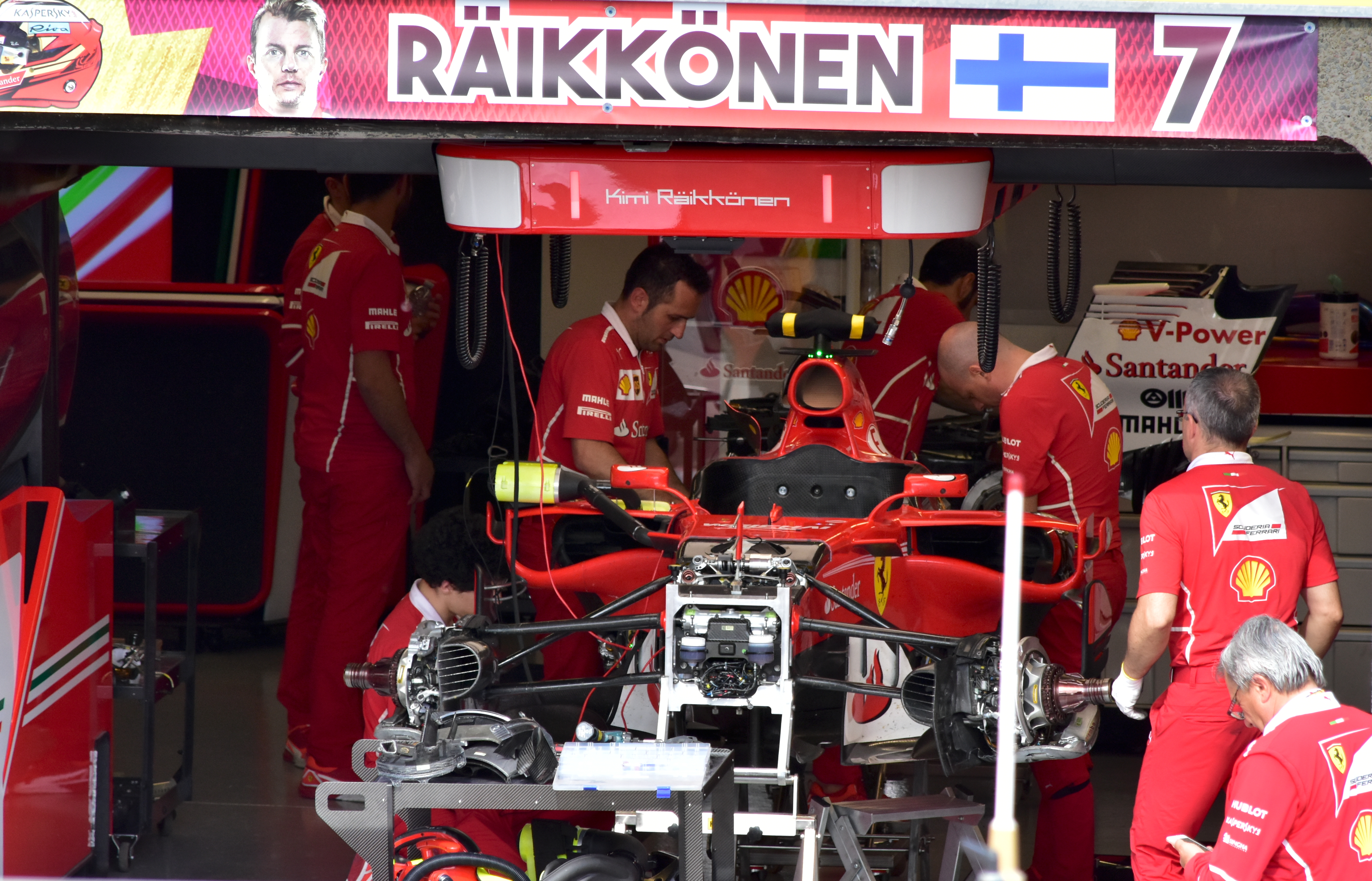 Grand Prix of Canada, 2017.